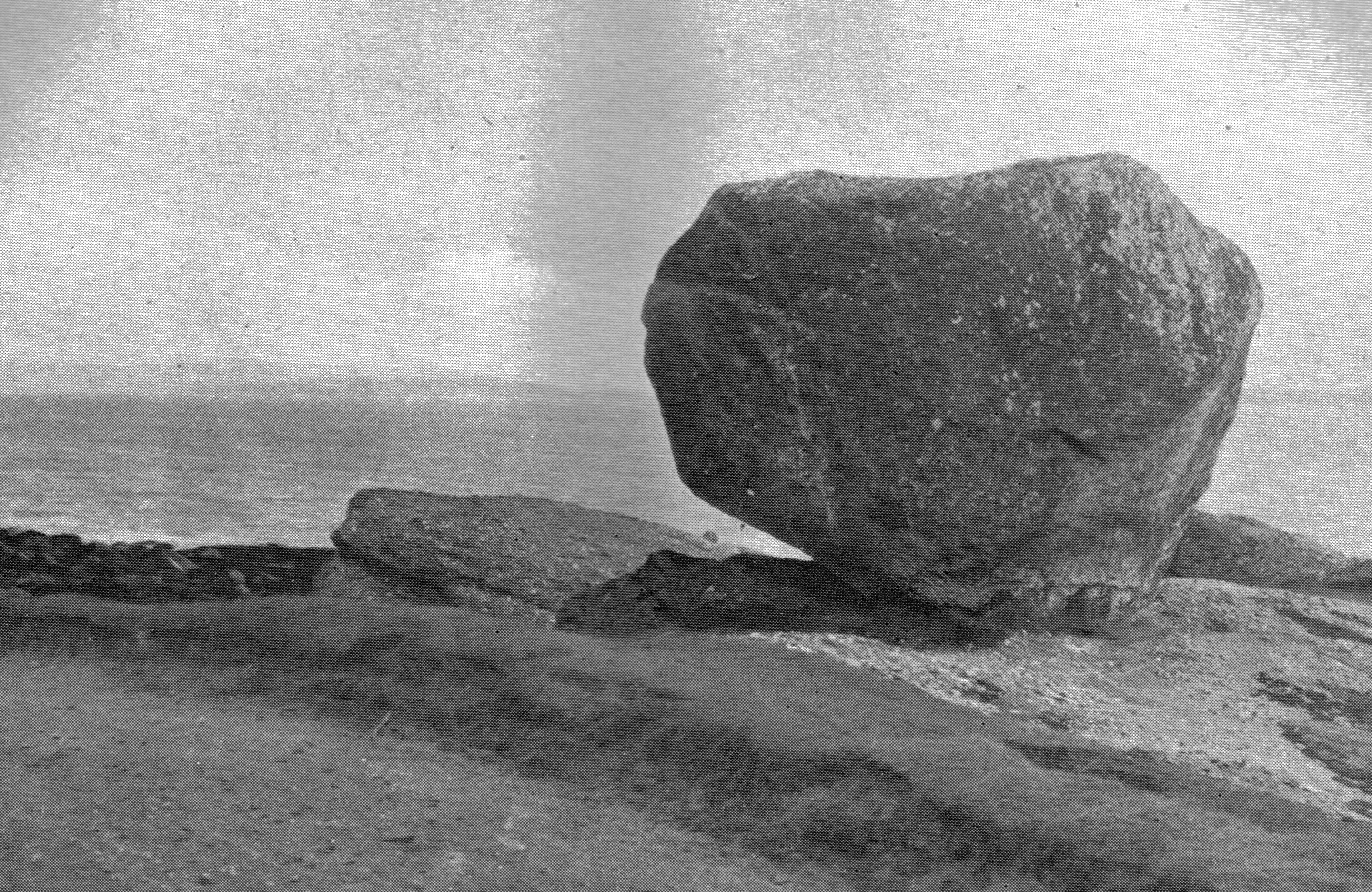 The Sannox rocking stone on the Isle of Arran